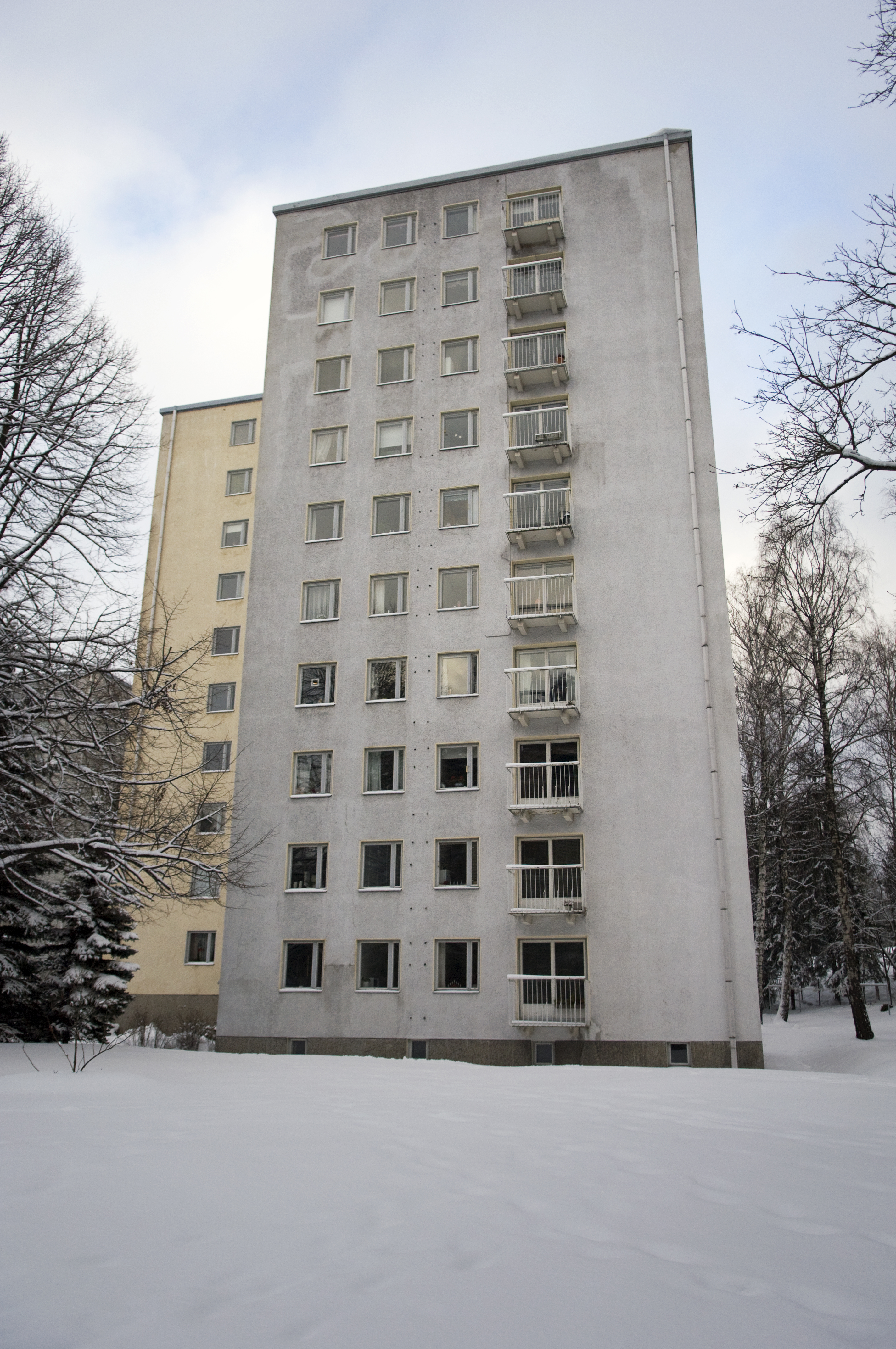 Apartment buildings in Munkkivuori, Helsinki, Finland.